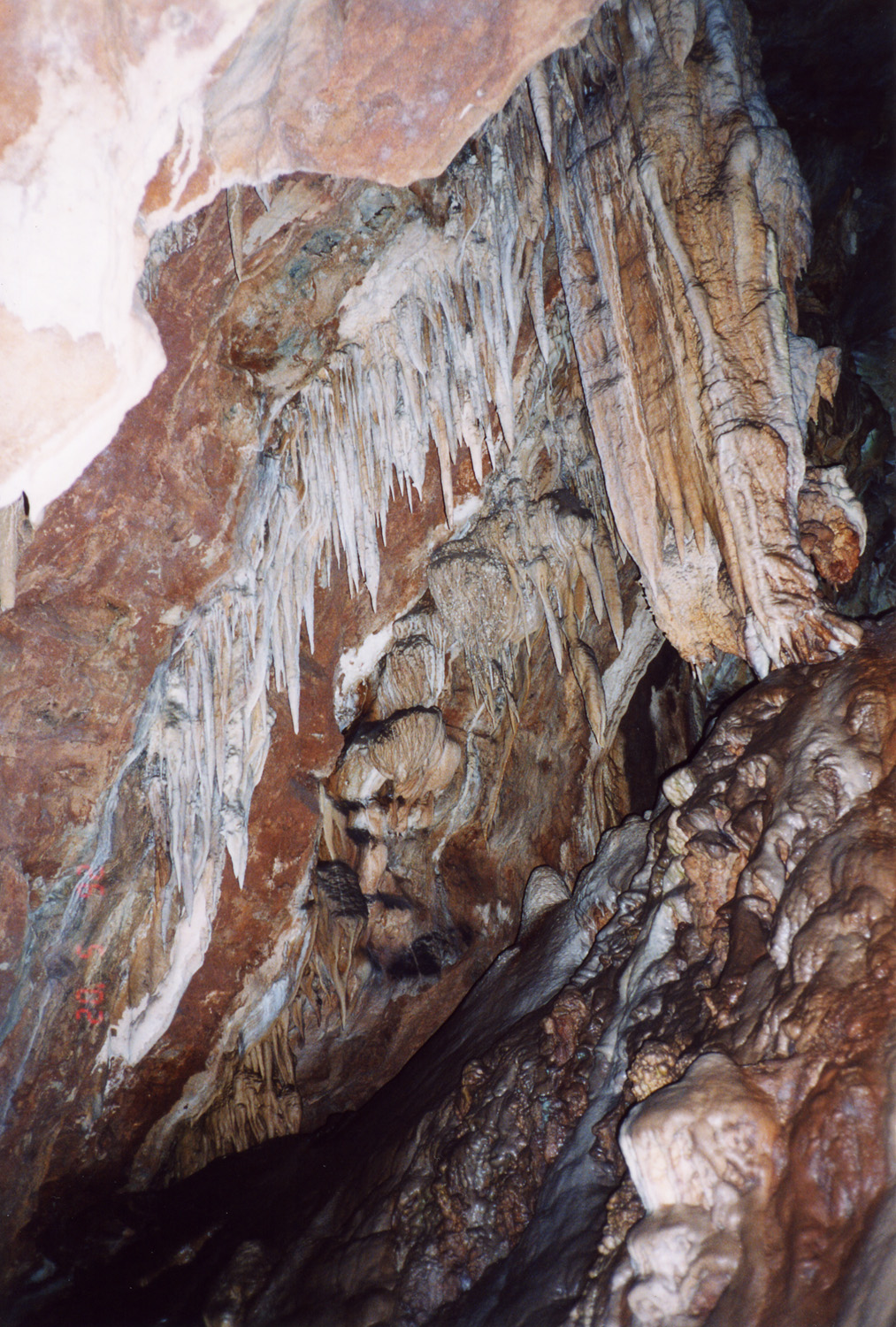 Mercer cave, Murphys, California, USA My own photo. Taken May 26, 2002.